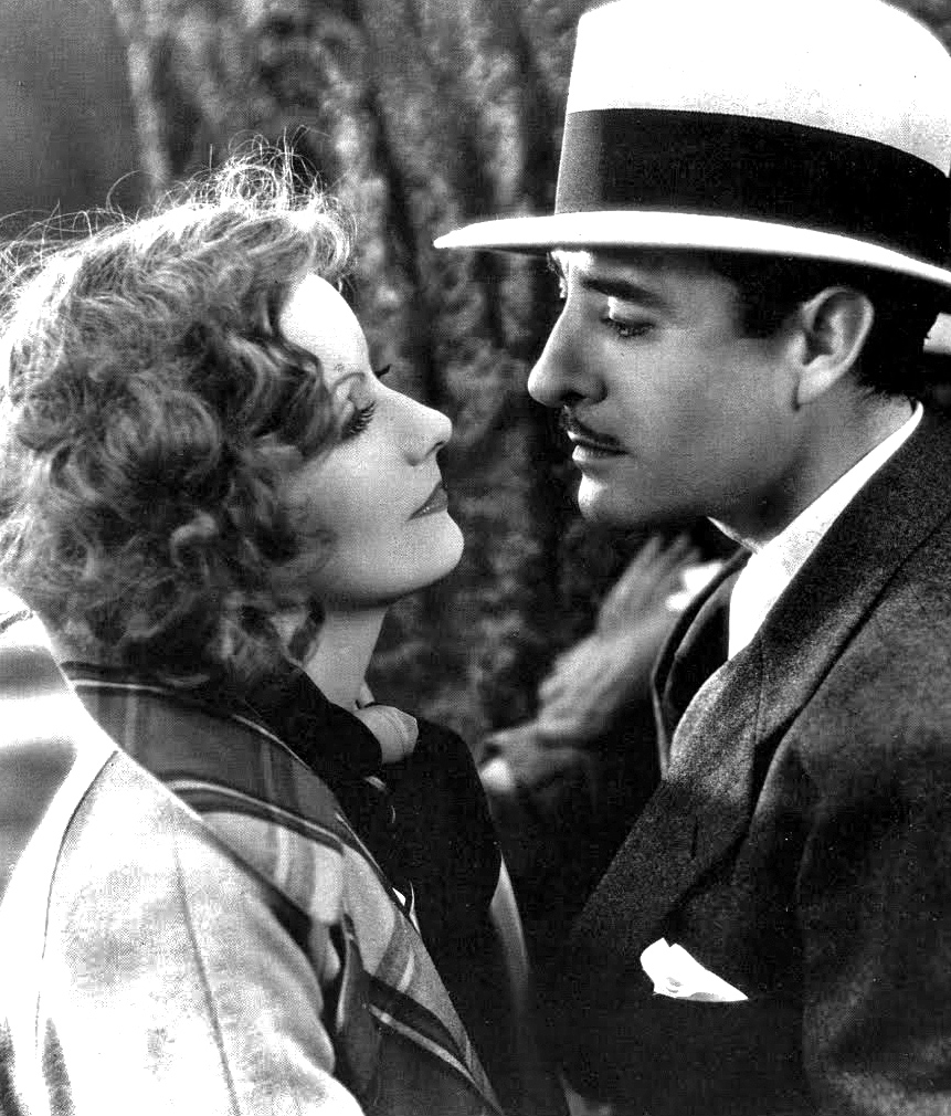 Studio publicity photo for film A Woman of Affairs, showing Greta Garbo and John Gilbert. No copyright given. See also: film still article.